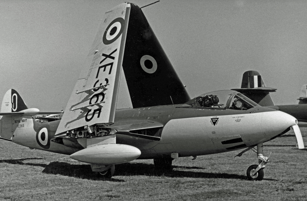 Hawker Sea Hawk FGA.6 XE365 of 800 NAS at Blackbushe Airport in 1955